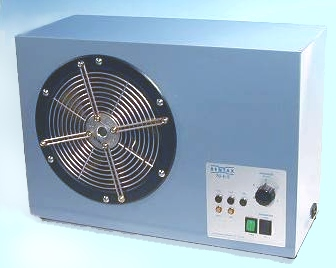 Ionization device of Bentax, model 70-E-5.